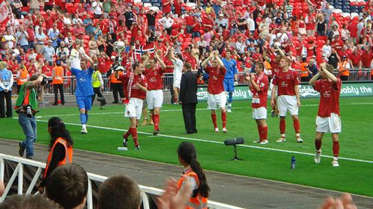 Ebbsfleet United F.C. celebrate winning the FA Trophy in 2008